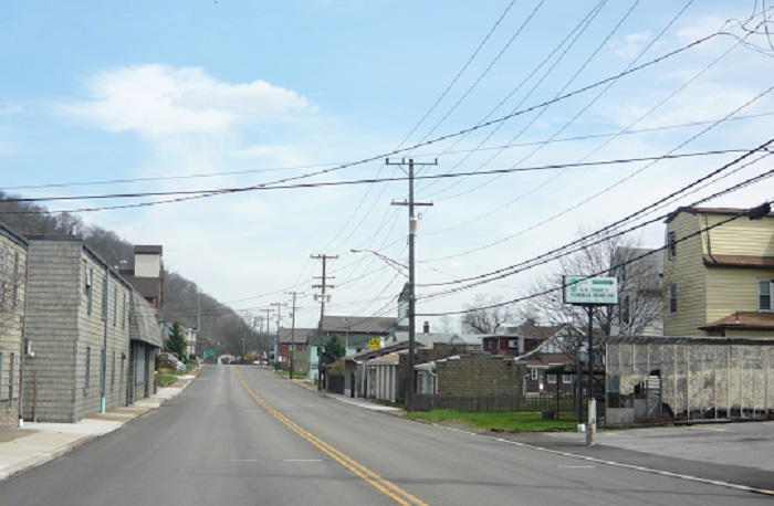 Fifth Street (from intersection with Grant Street, looking northeast), Borough of West Elizabeth, Allegheny County, Pennsylvania.